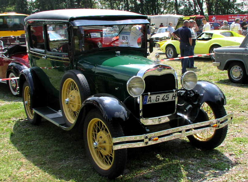 Ford A Sedan (1929)